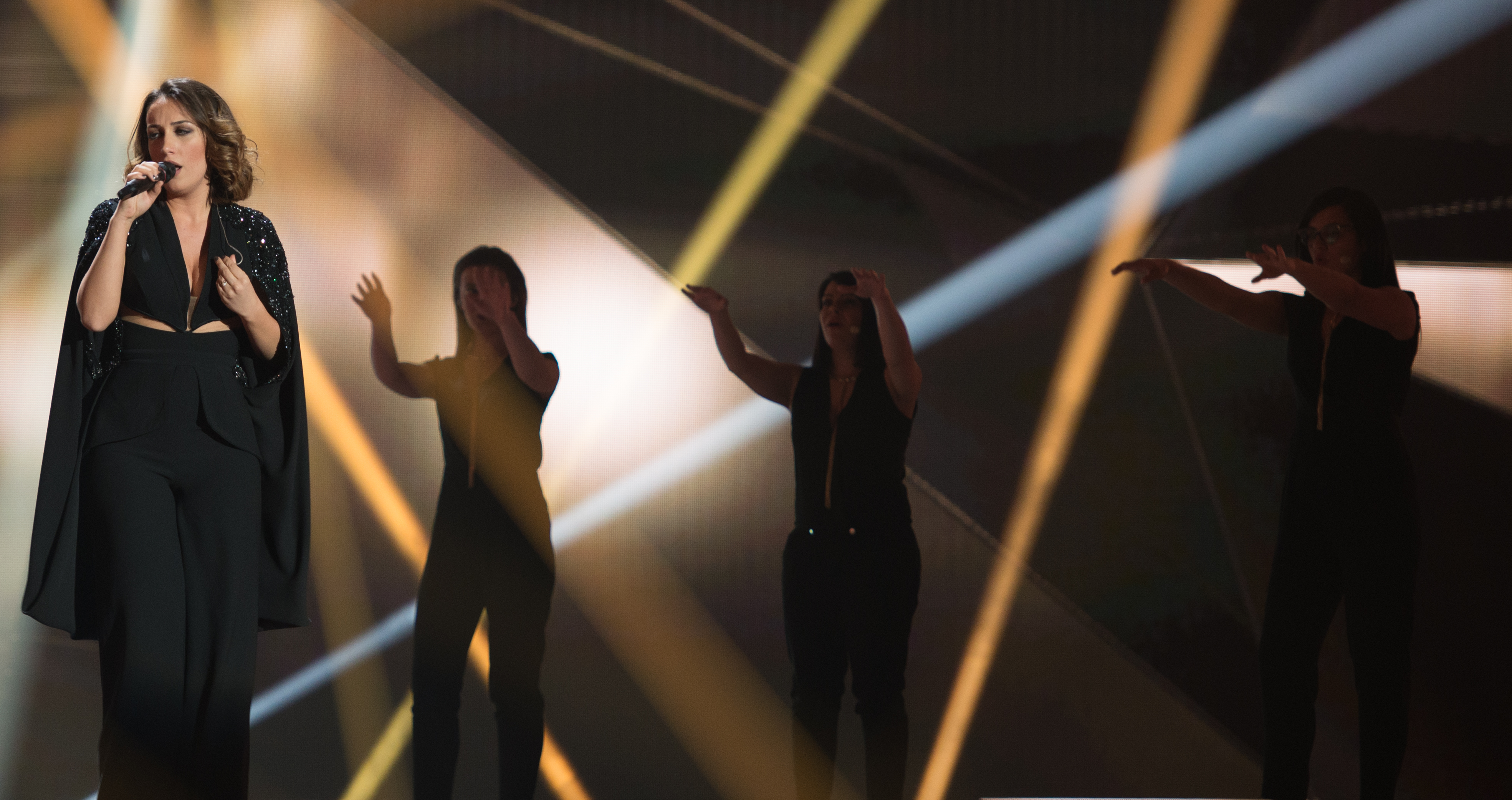 Eurovision Song Contest Vienna 2015: Elhaida Dani, Albania